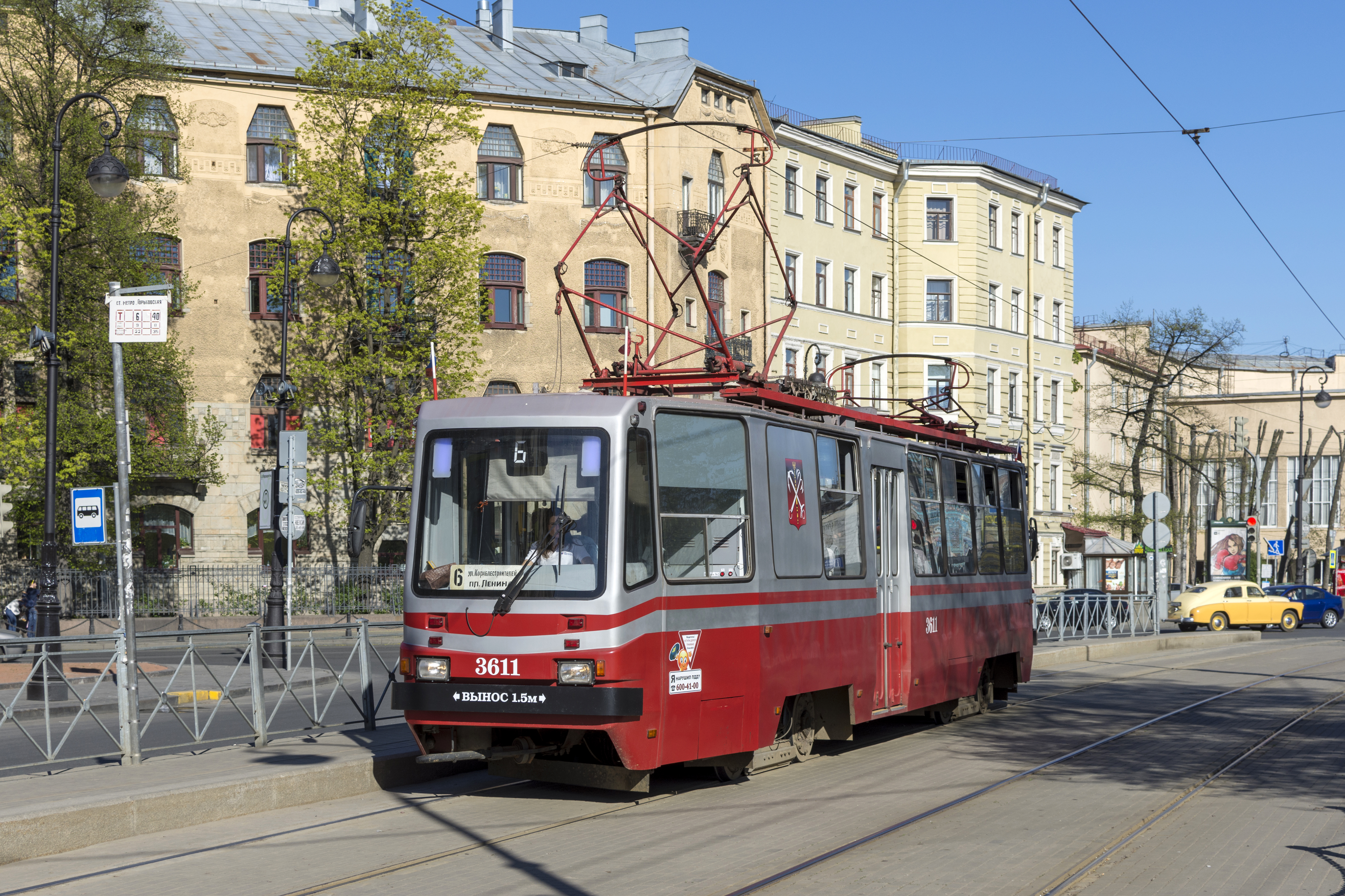 Tram 71-88G on Kronverksky Avenue in Saint Petersburg